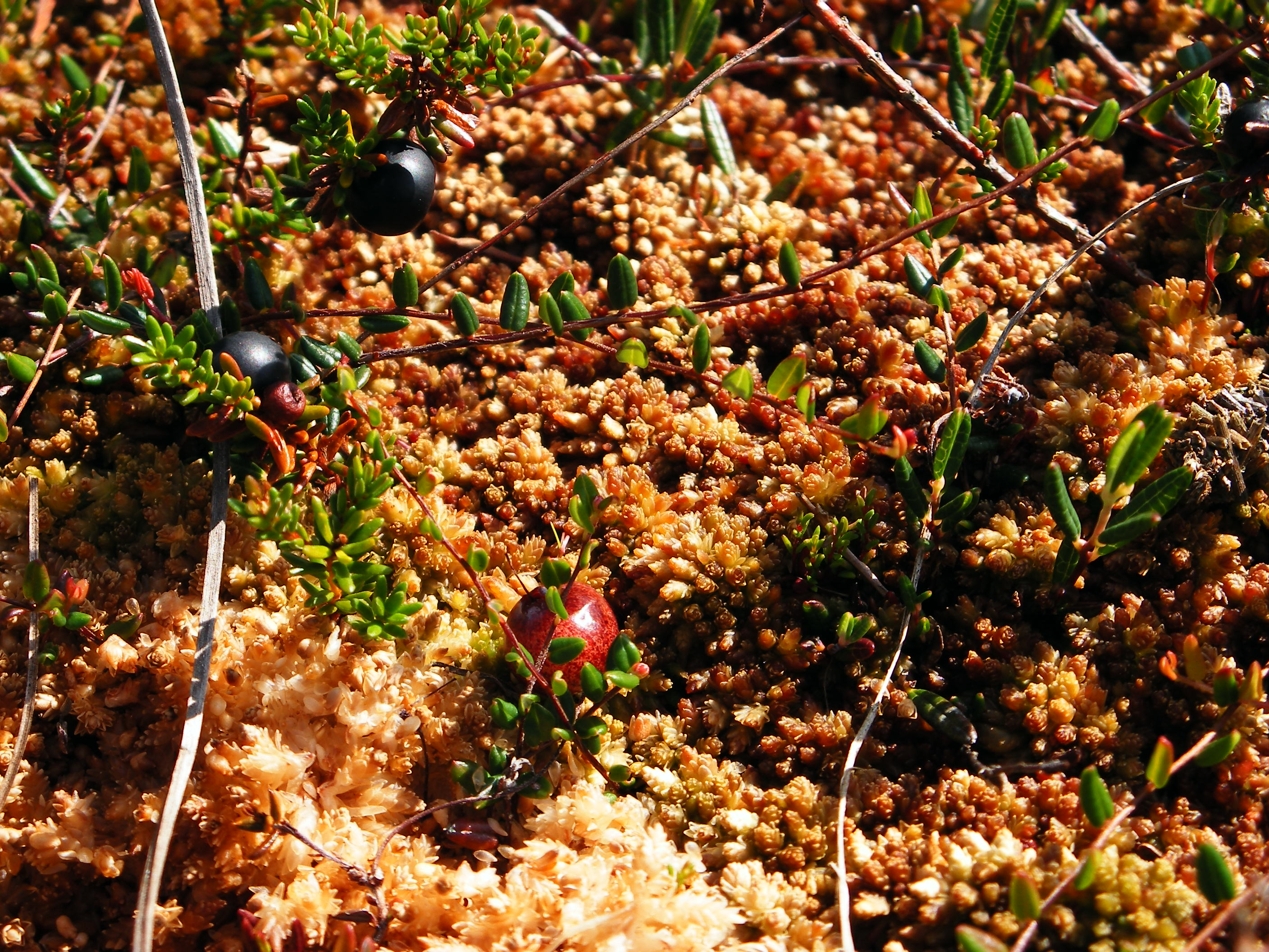 Empetrum nigrum and Oxycoccus palustris, "Wildes Moor" mire, Schleswig-Holstein, Germany